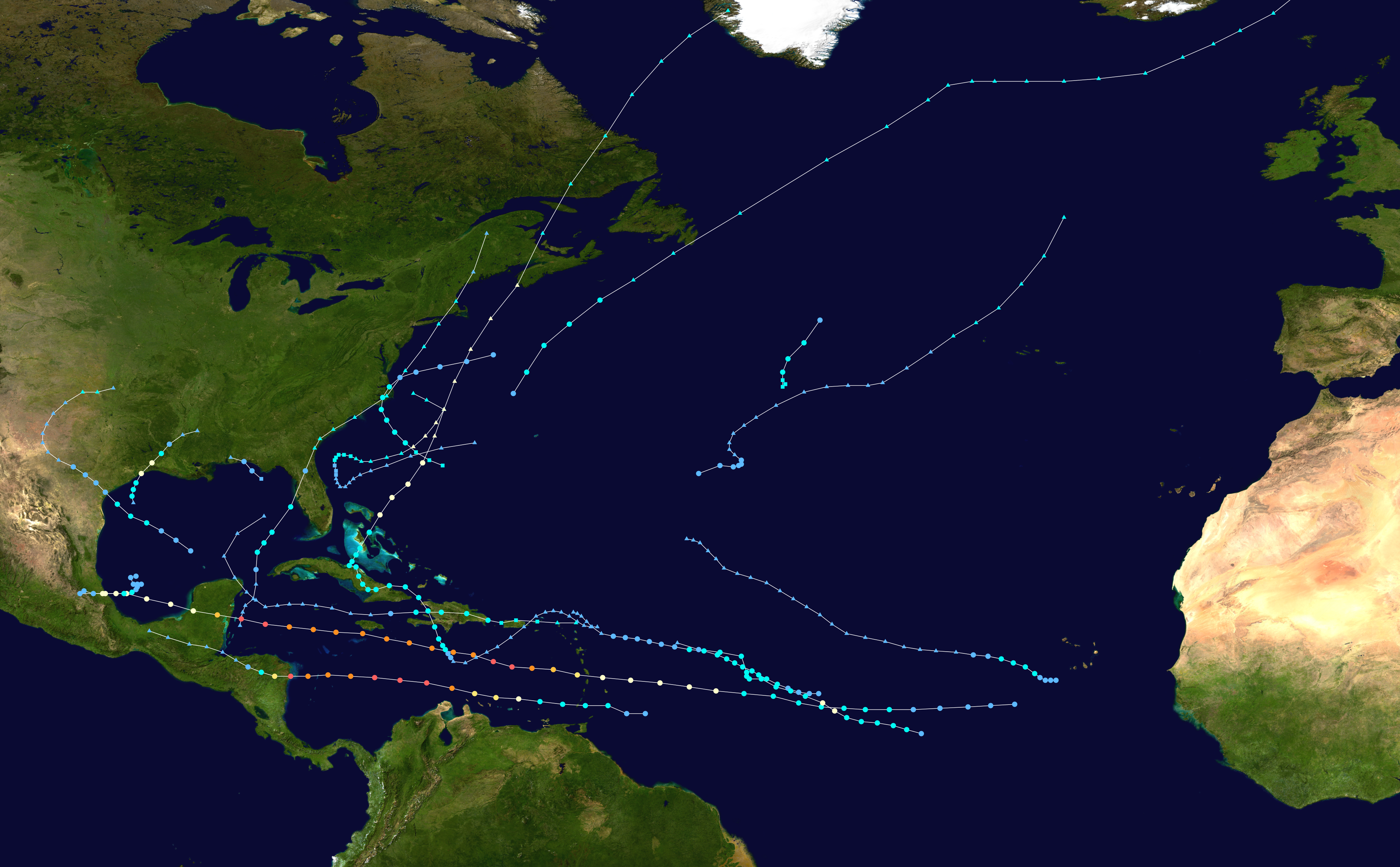 This map shows the tracks of all tropical cyclones in the 2007 Atlantic hurricane season. The points show the location of each storm at 6-hour intervals. The colour represents the storm's maximum sustained wind speeds as classified in the Saffir-Simpson Hurricane Scale (see below), and the shape of the data points represent the type of the storm. Saffir–Simpson scale Tropical depression≤38 mph≤62 km/h Category 3111–129 mph178–208 km/h Tropical storm39–73 mph63–118 km/h Category 4130–156 mph209–251 km/h Category 174–95 mph119–153 km/h Category 5≥157 mph≥252 km/h Category 296–110 mph154–177 km/h Unknown Storm type Tropical cyclone Subtropical cyclone Extratropical cyclone / Remnant low / Tropical disturbance / Monsoon depression